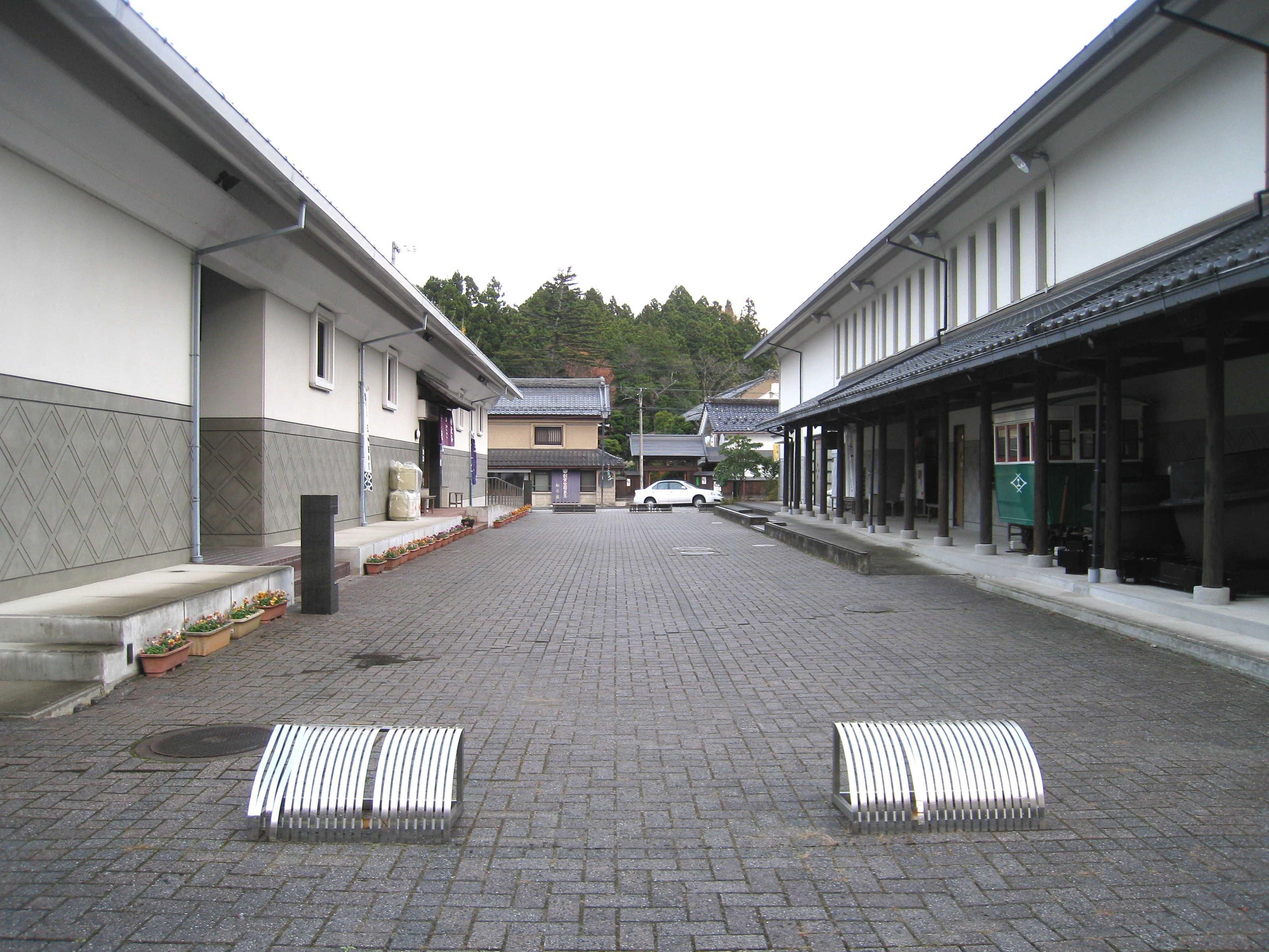 Osaki City Matsuyama Sake Museum (right) and Osaki City Matsuyama Hana no Kura (left) in Osaki City, Miyagi Prefecture, Japan